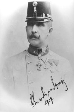 Archduke Ferdinand Karl of Austria (1868-1915), brother of Franz Ferdinand. After 1911 under common subject name Ferdinand Burg. On the photo as officer of the imp.-royal army